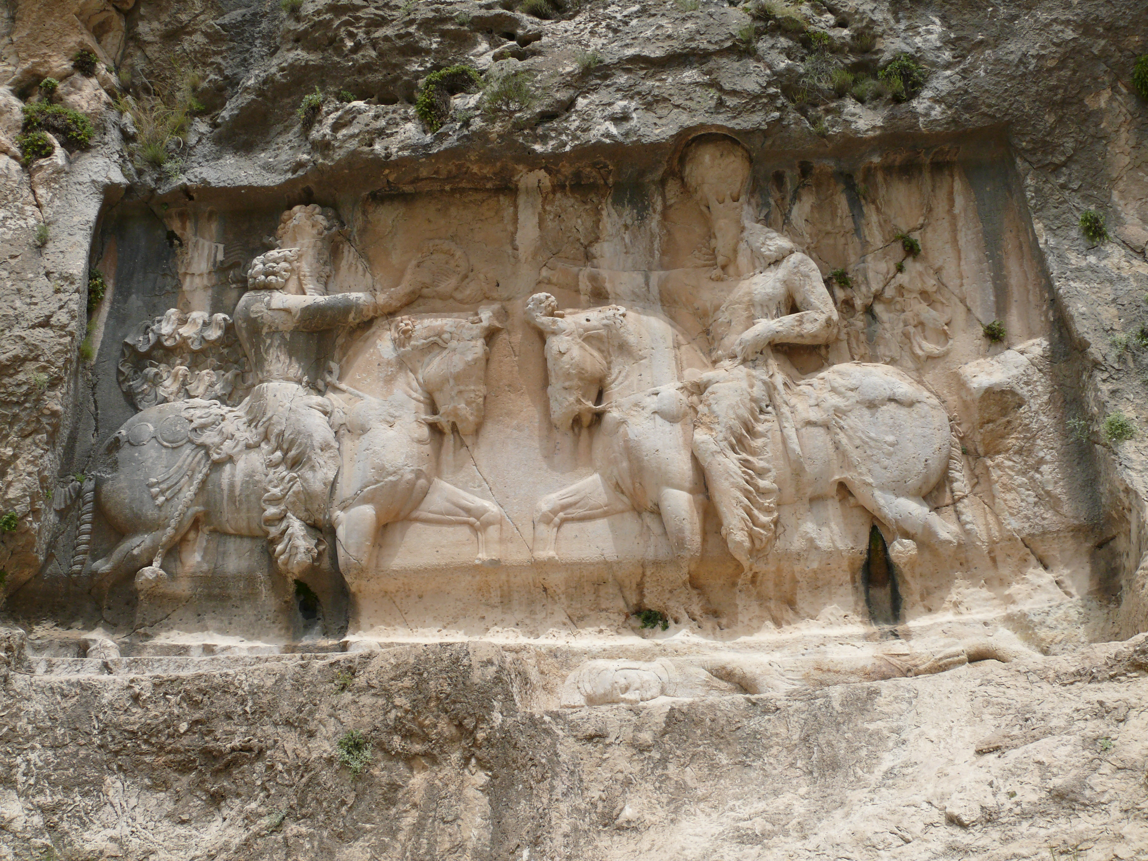 Investiture scene, rock relief of Sasanian king Bahram Ist at Bishapur (said Bishapur V). Iran, province of Fars.